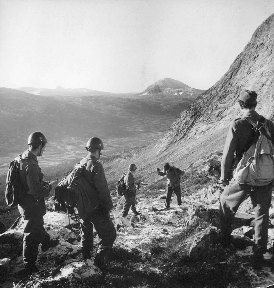 The man turns out to be Norwegian fleeing from the German terror in Norway.